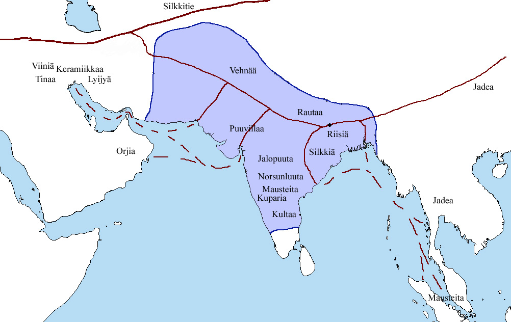 Main trade routes of the Mauryan empire in 3rd century BC. Text in finnish.